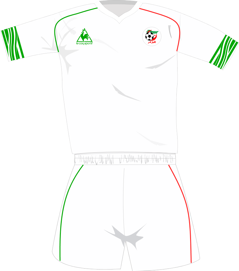 The Home kit Of Algeria National Football Team 2009